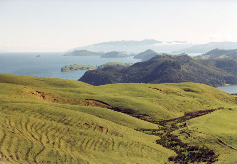 Picture of the Coromandel Peninsula, New Zealand, taken by the user in 2001.